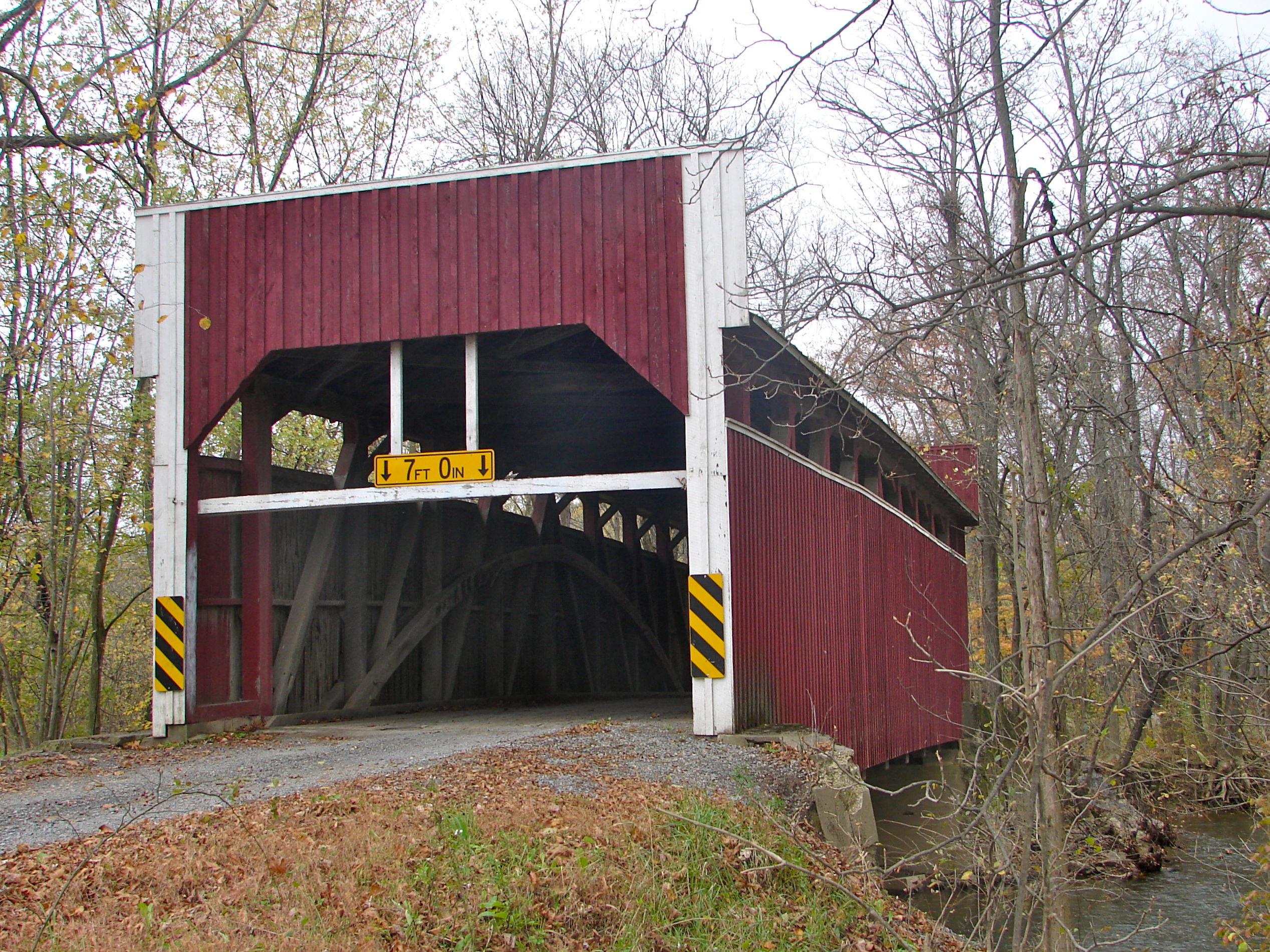 Keefer Covered Bridge No. 7 on the NRHP since November 29, 1979. On Pennsylvania Route 346 (Keefer Mill Road) off of Mexico Road, southwest of Washingtonville in Liberty Township, Montour County, Pennsylvania. Odd square front, but regular pitched roof.